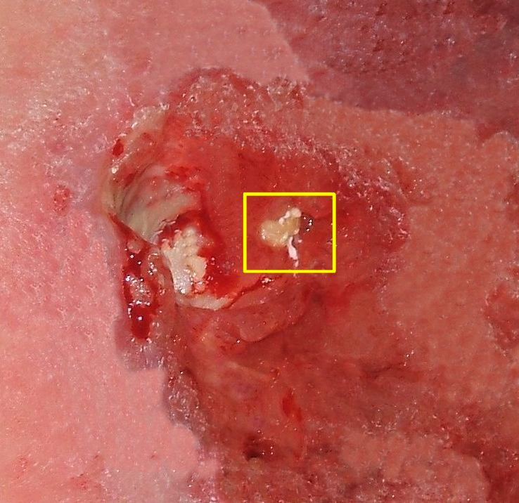 Photo of decubitus with ischium protruding